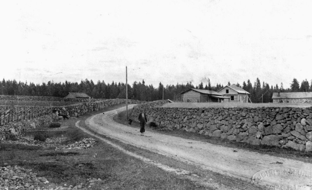 Village of Harjakangas in Noormarkku, Finland.